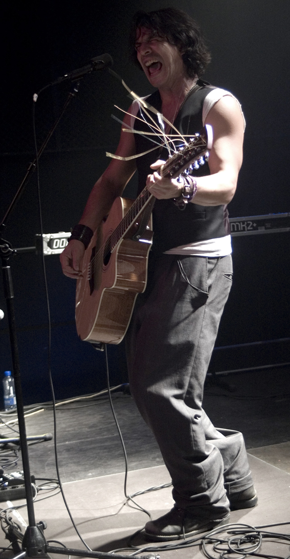 Robby Maria - (Live im SO36, Berlin, 2011)